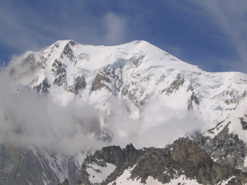 Mont Blanc from Helbronner peak, May 2005